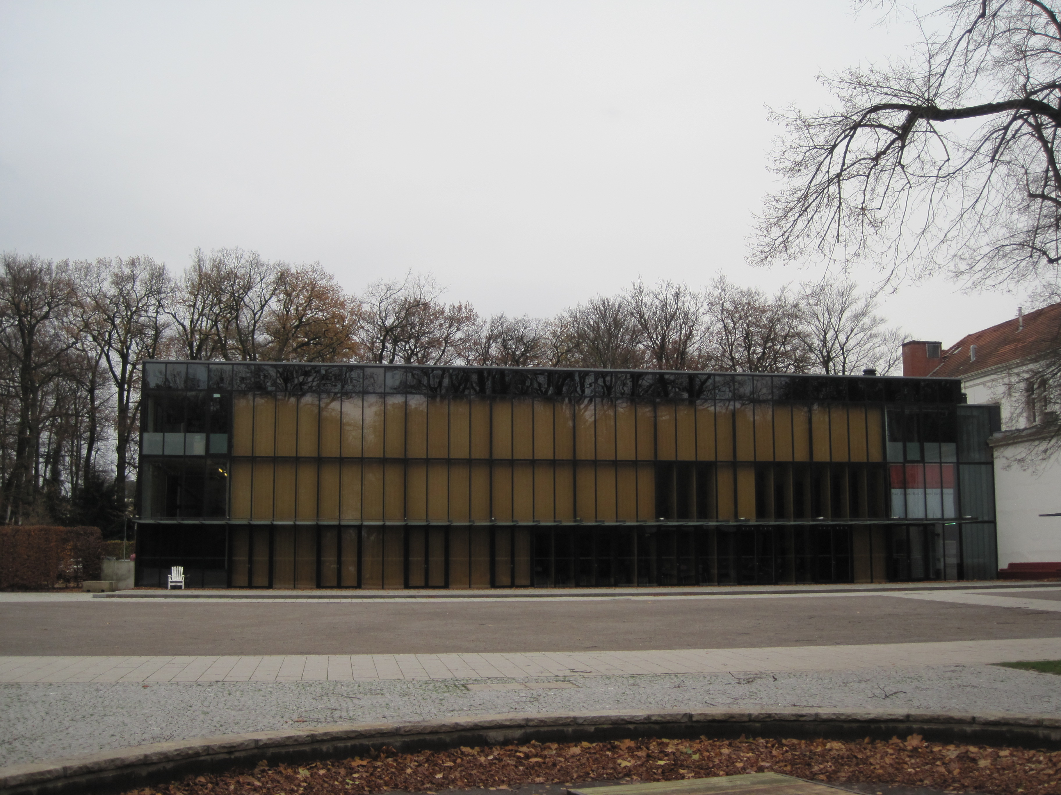 Parkside of the Spa Theatre.